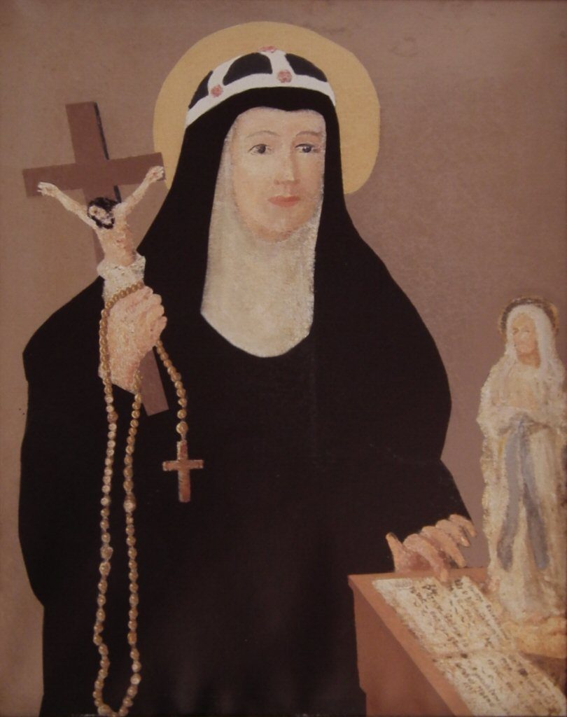 Oil painting of Birgitta of Sweden. Painted in 1913 by Charlotta Sophia Ehrenpohl (July 28 1841 - December 31 1914). The painting is located in the Sint Antoniuskapel in the hamlet Boeket, near the village Nederweert, the Netherlands.